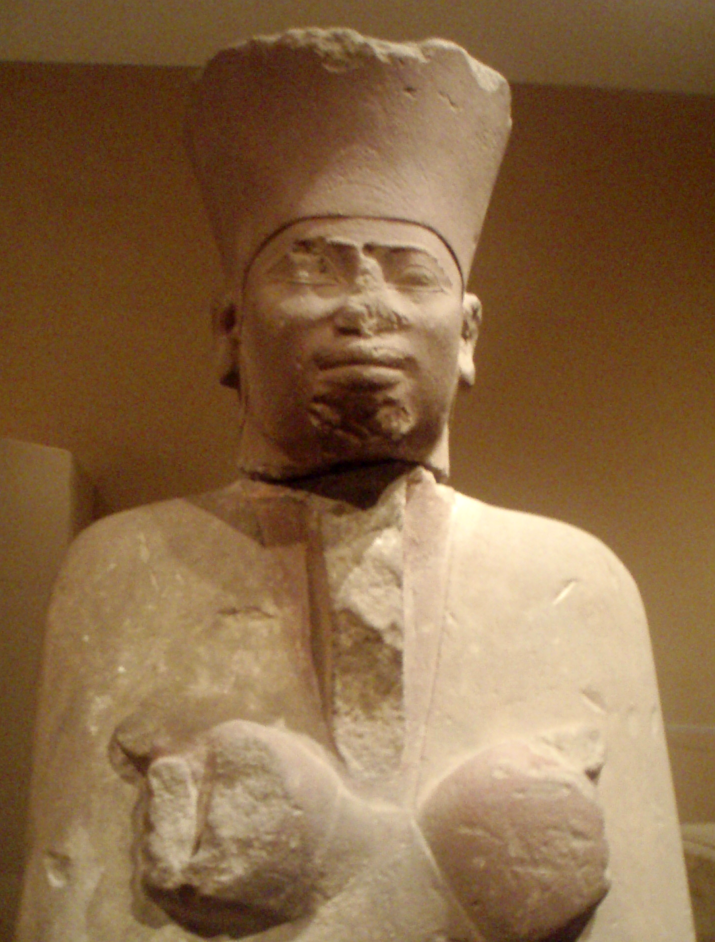 Close-up of a painted sandstone statue of Nebhepetre Mentuhotep (Mentuhotep II) wearing the red crown of Lower Egypt. From the 11th dynasty